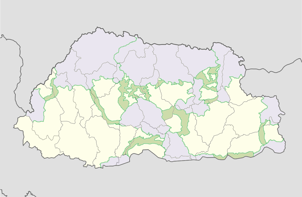 Location map of Bhutan with protected areas and corridors shaded. Equirectangular projection, N/S stretching 115 %. Geographic limits of the map: N: 28.5° N S: 26.4° N W: 88.6° E E: 92.3° E